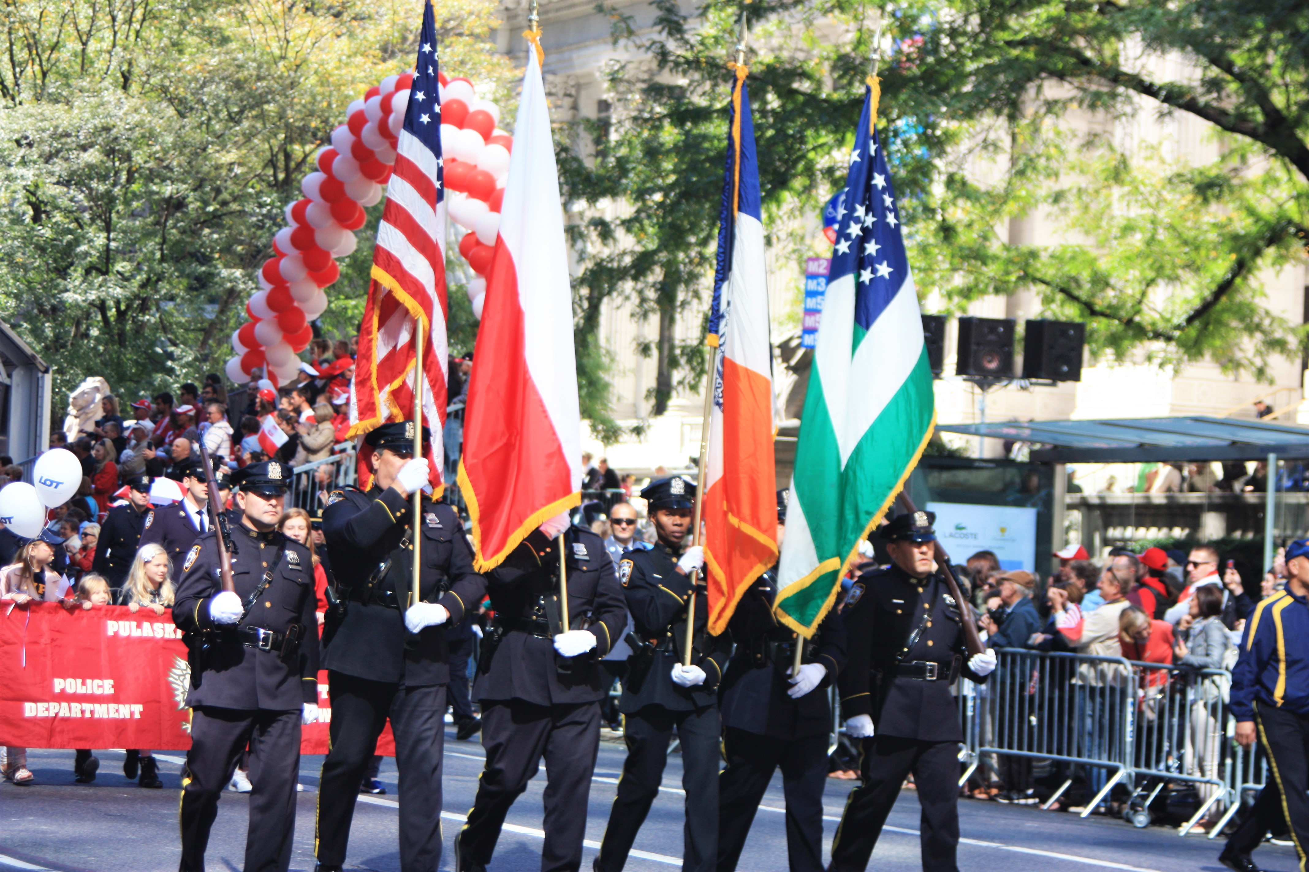 80th Pulaski Day Parade in New York. It took place on October 1, 2017.